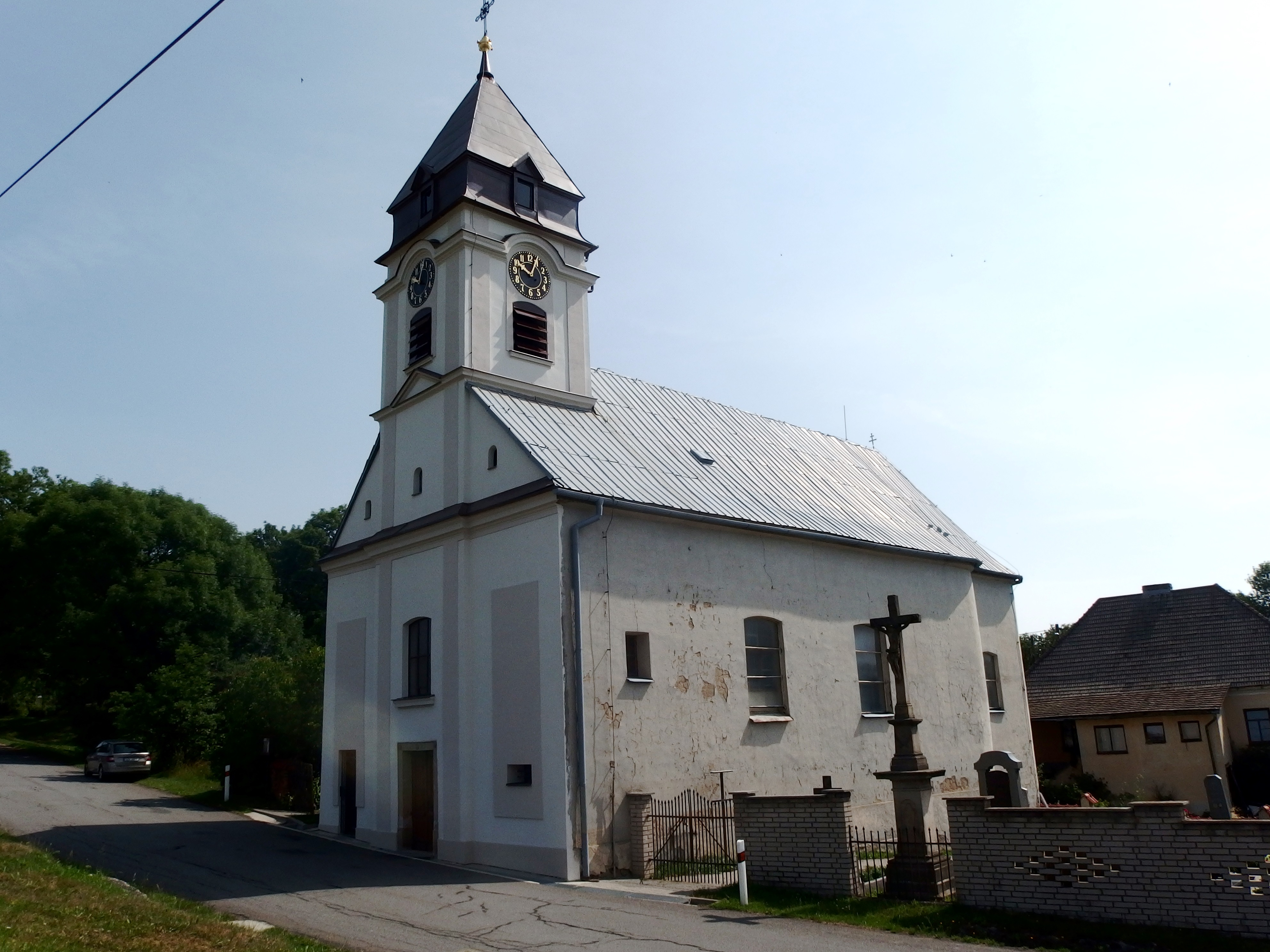 Odry, Nový Jičín District, Czech Republic, part Veselí. Church of Holy Trinity.